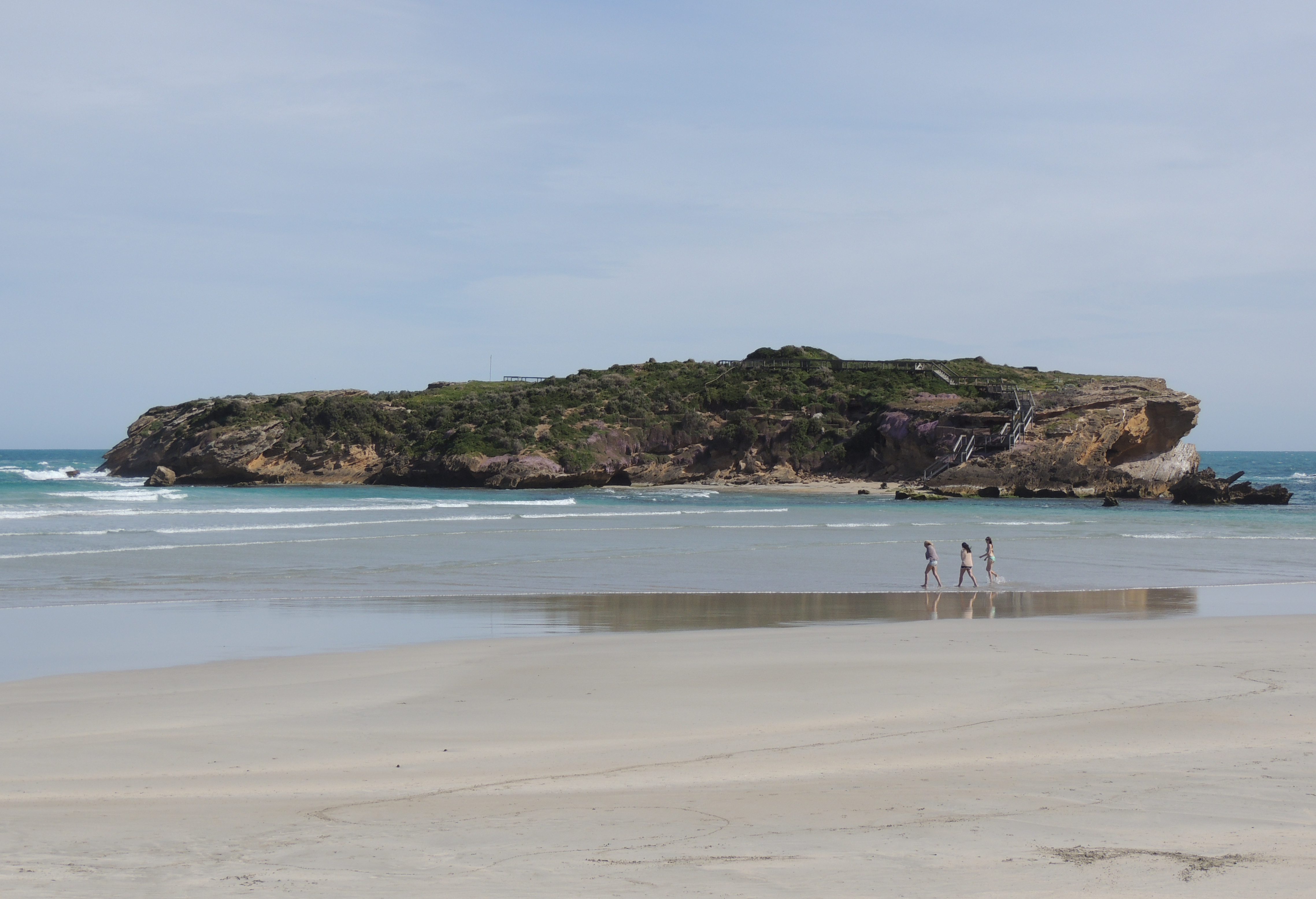 Middle Island, Warnambool, Victoria (2014)